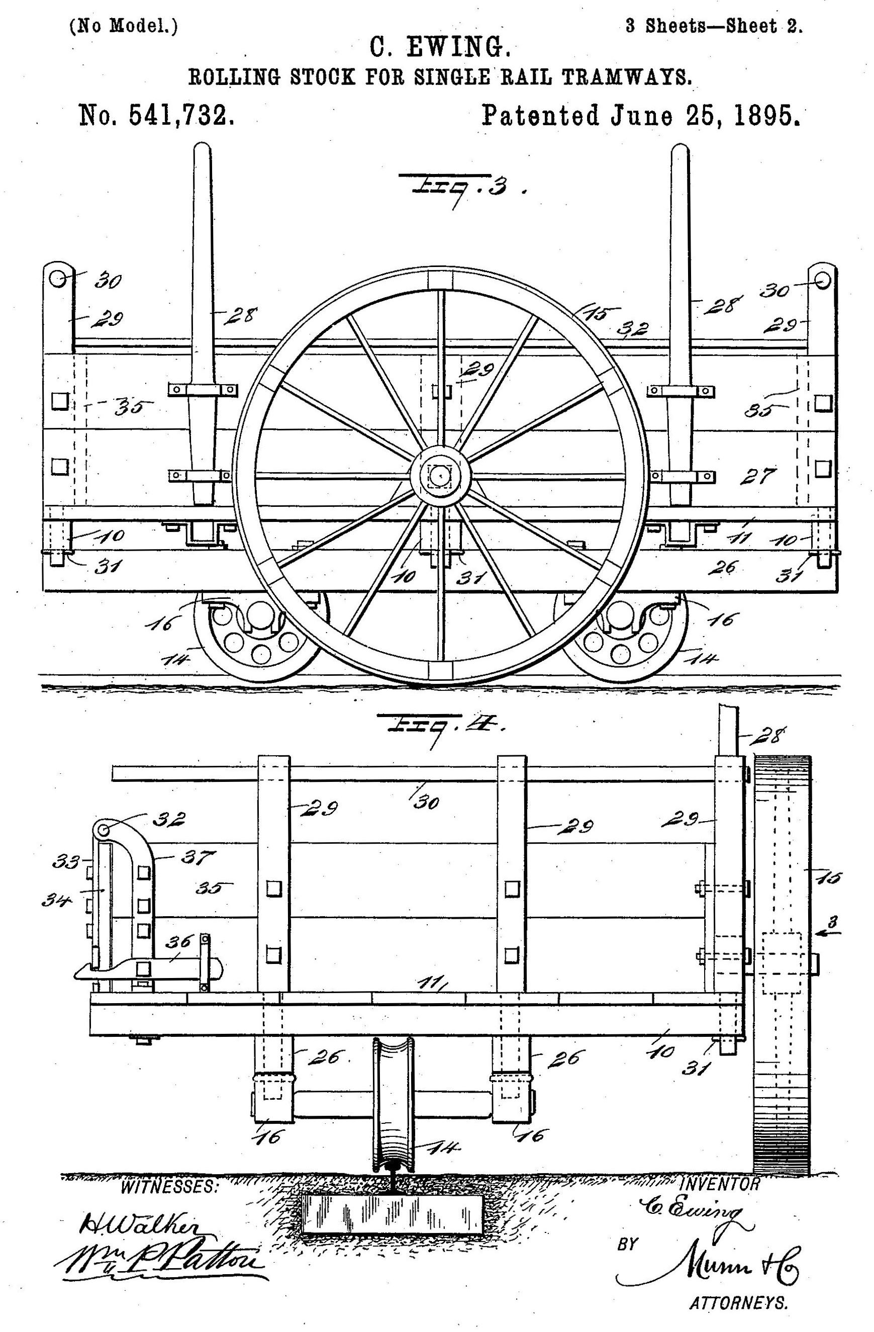 C. Ewing's Patent Application US 541732 A: Rolling stock for single rail tramways